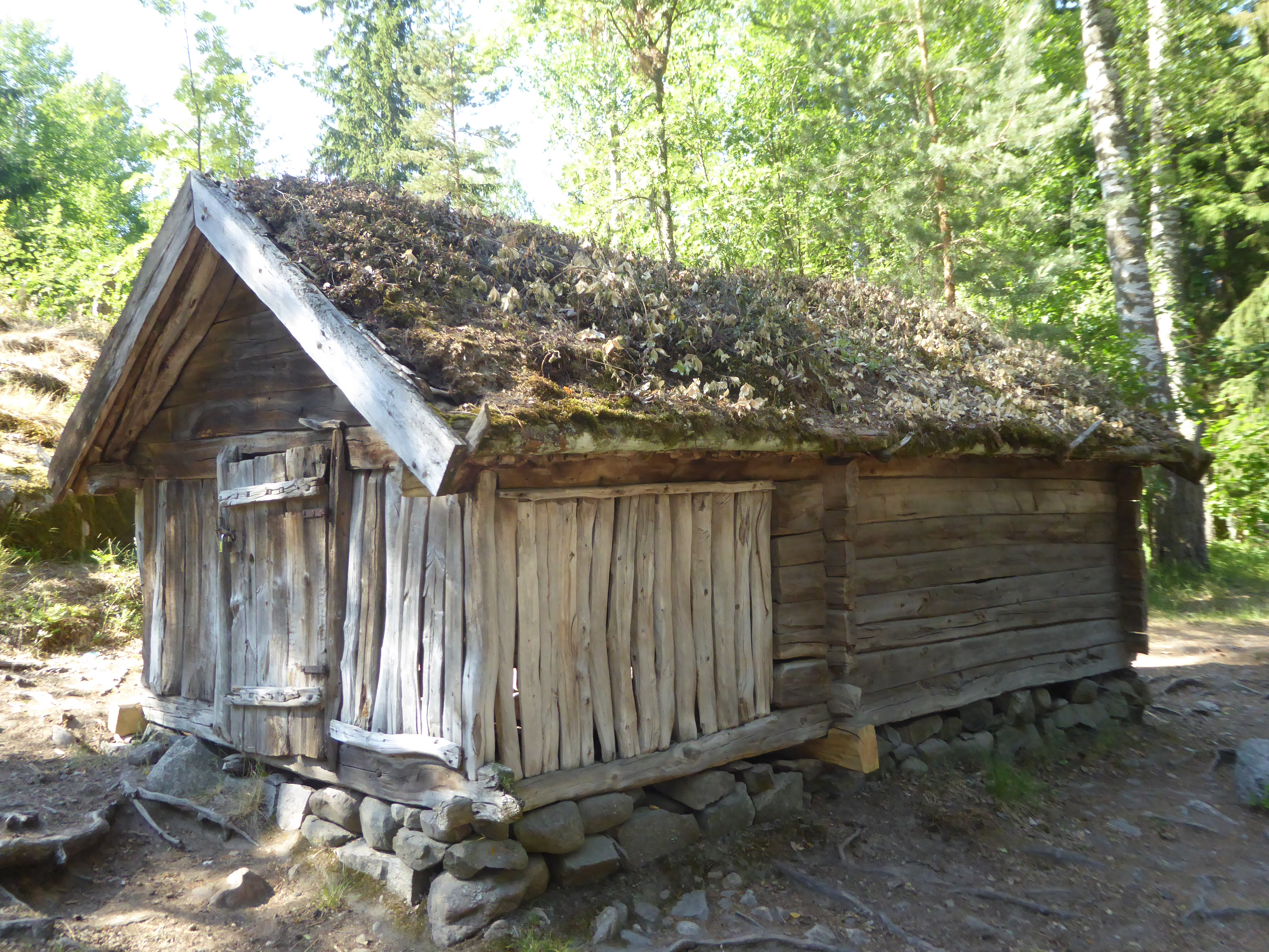 Helsinki, Seurasaari. Wikidata has entry Q2165193 with data related to this item.